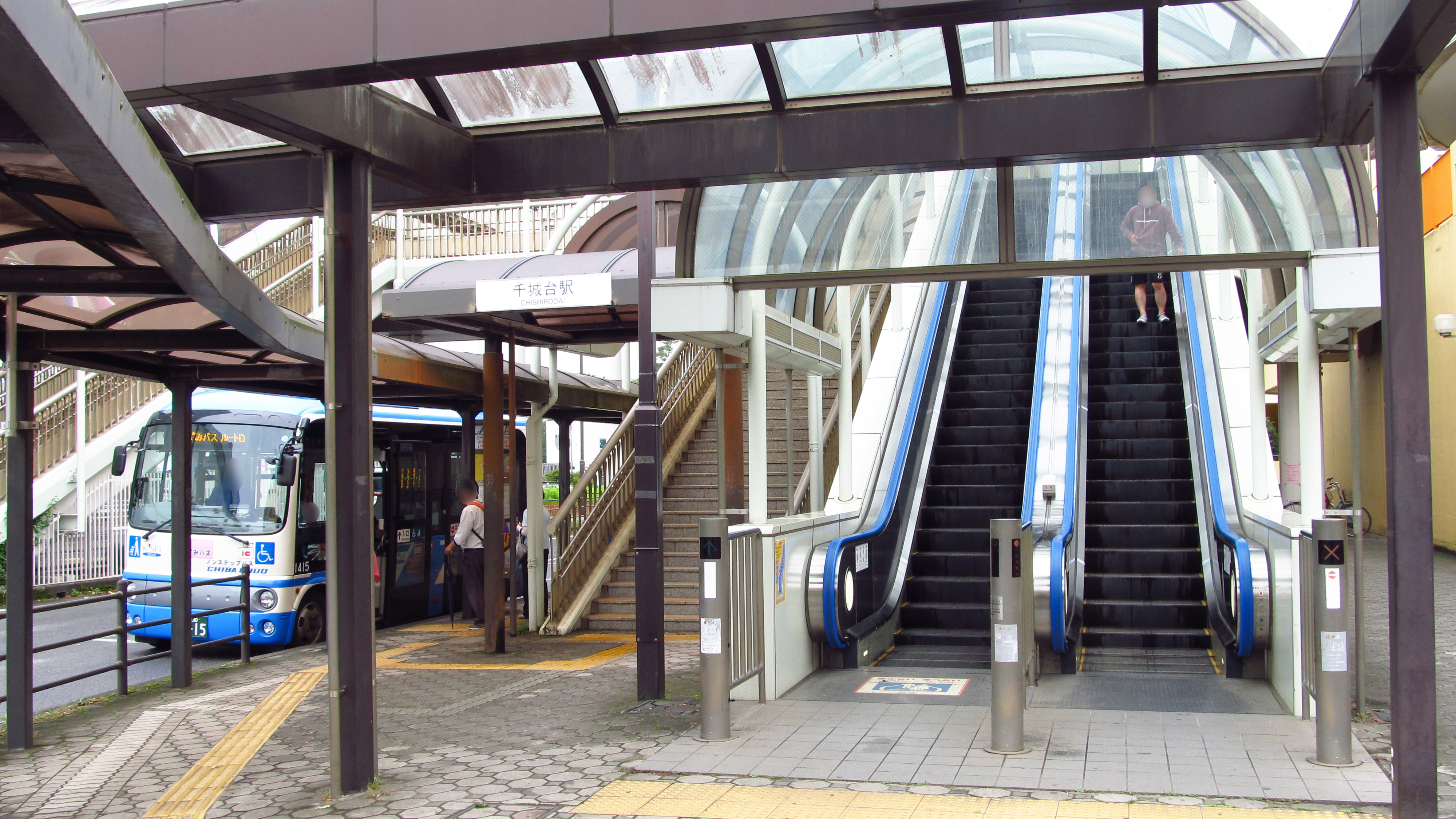 The no.2 entrance to Chishirodai Station on the Chiba Urban Monorail in Chiba city, Chiba prefecture, Japan